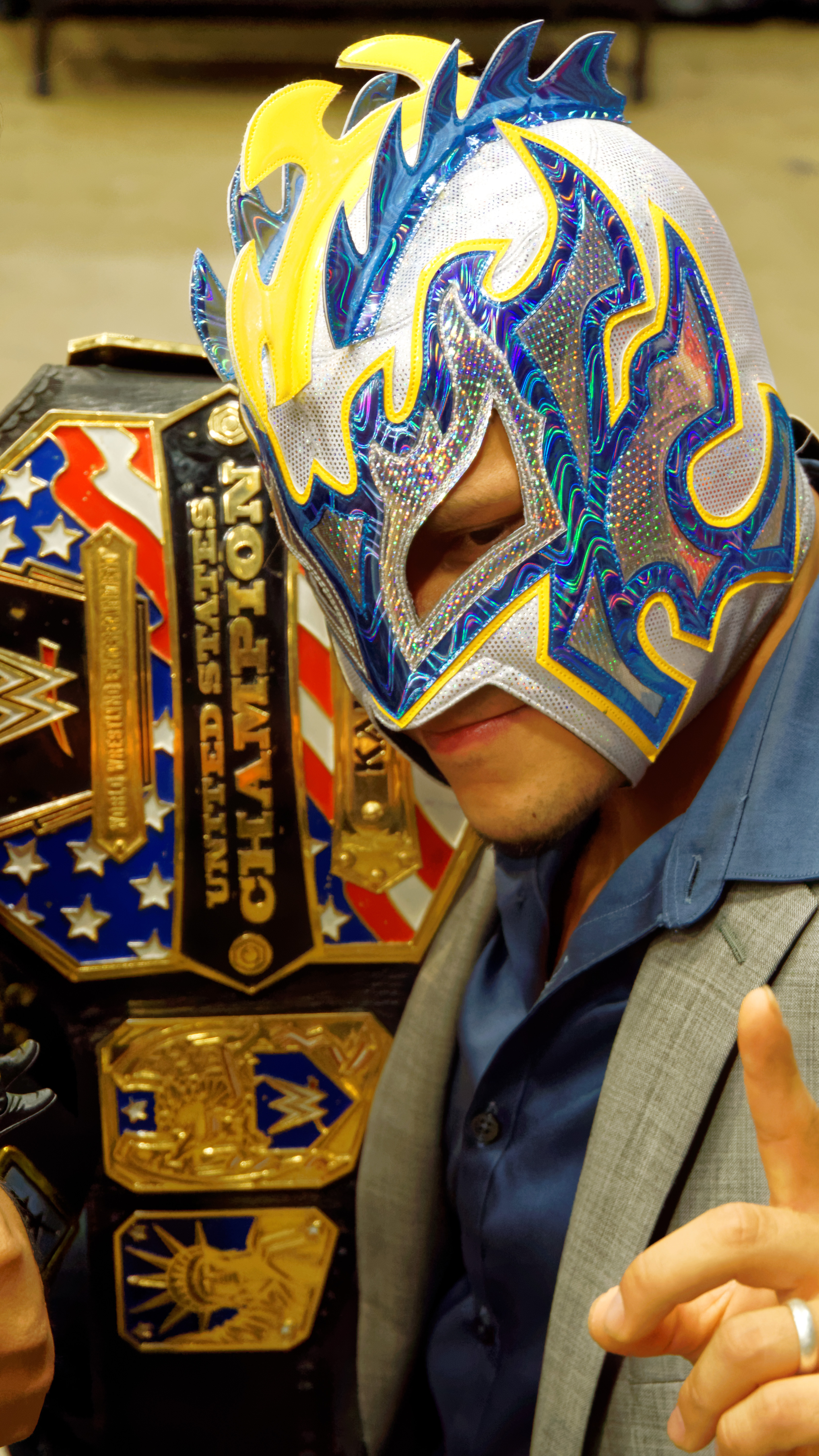 Kalisto posing with his United States championship during the WrestleMania 32 Axxess in March 31, 2016